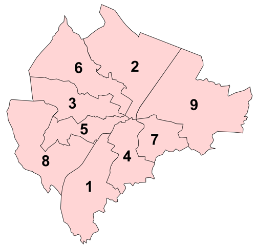 Map of the nine District Electoral Areas of Belfast, Northern Ireland numbered in alphabetical order: 1: Balmoral; 2: Castle; 3: Court; 4: Laganbank; 5: Lower Falls; 6: Oldpark; 7: Pottinger; 8: Upper Falls; 9: Victora